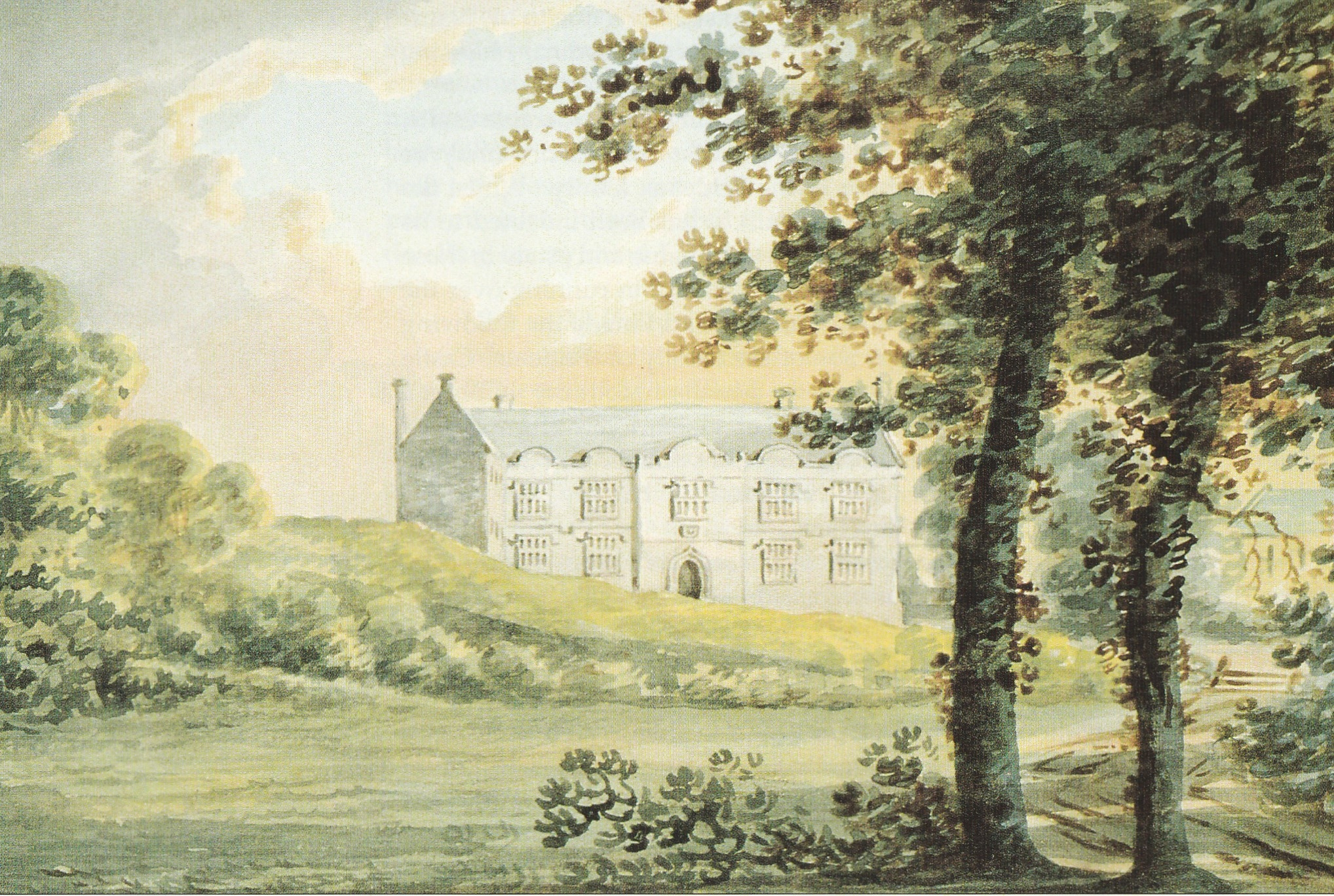 24 January 1795 watercoulor of Netherton Hall in the parish of Farway, Devon, by Rev. John Swete (d.1821), entitled Netherton, seat of Sir Wilmot Prideaux, Bart. Collection of Devon Record Office, ref DRO, 564M/F7/63